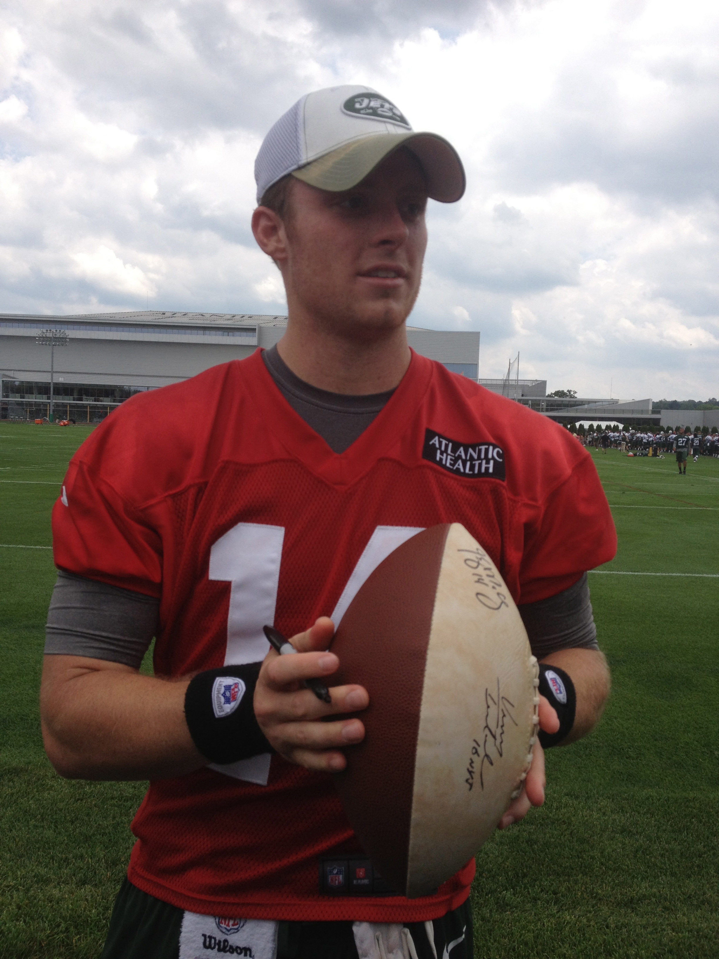 Quarterback Greg McElroy signing autographs at New York Jets Mini Camp in Florham Park, NJ, on June 11, 2013.